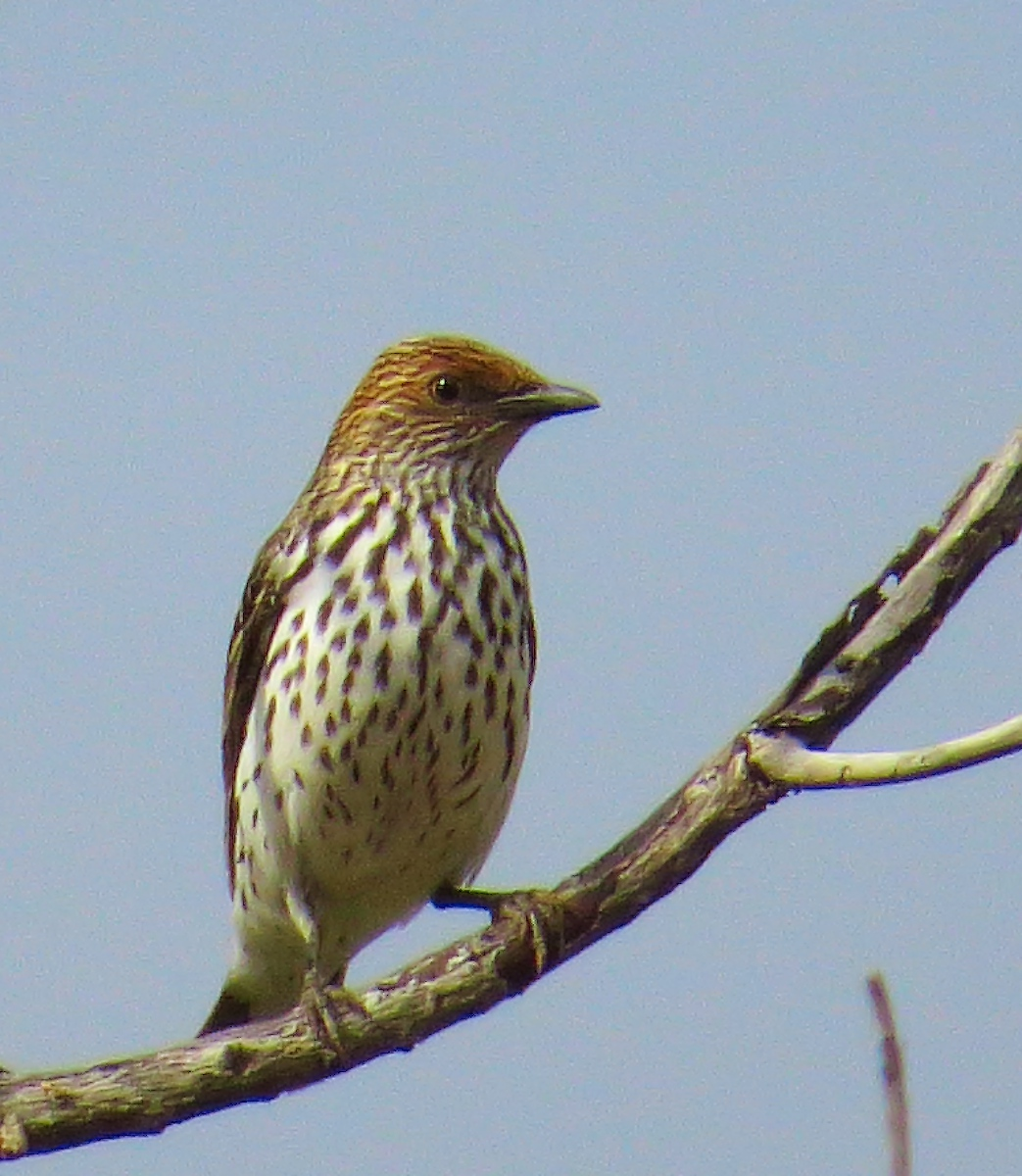 Violet-backed Starling Cinnyricinclus leucogaster, female, Limpopo, South Africa.